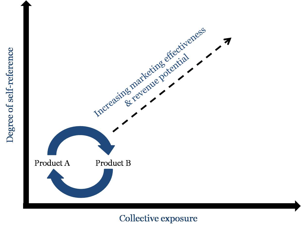 This diagram shows how self-referential marketing can increase an organization's potential exposure and revenue generation.